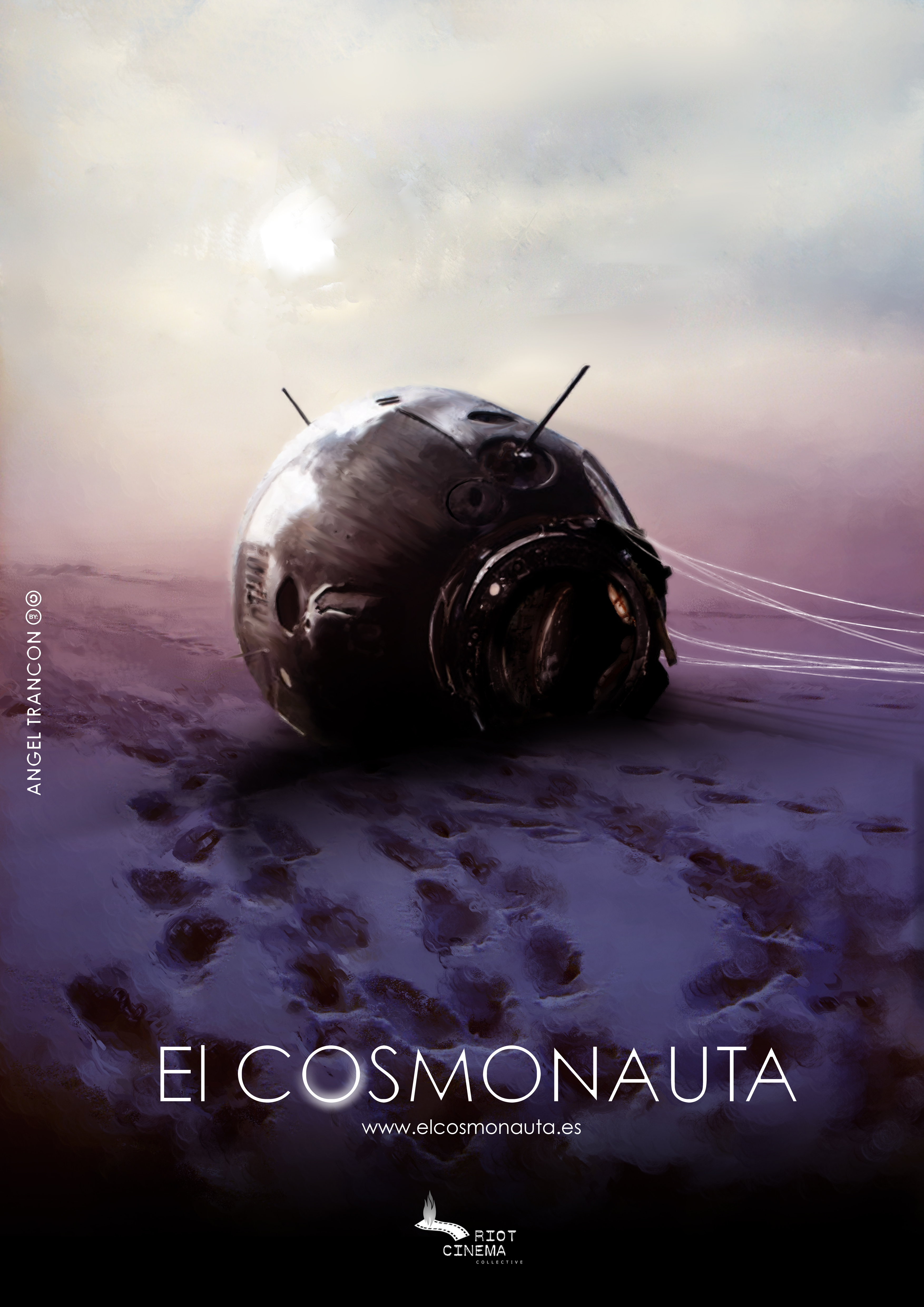 Teaser poster of The Cosmonaut.